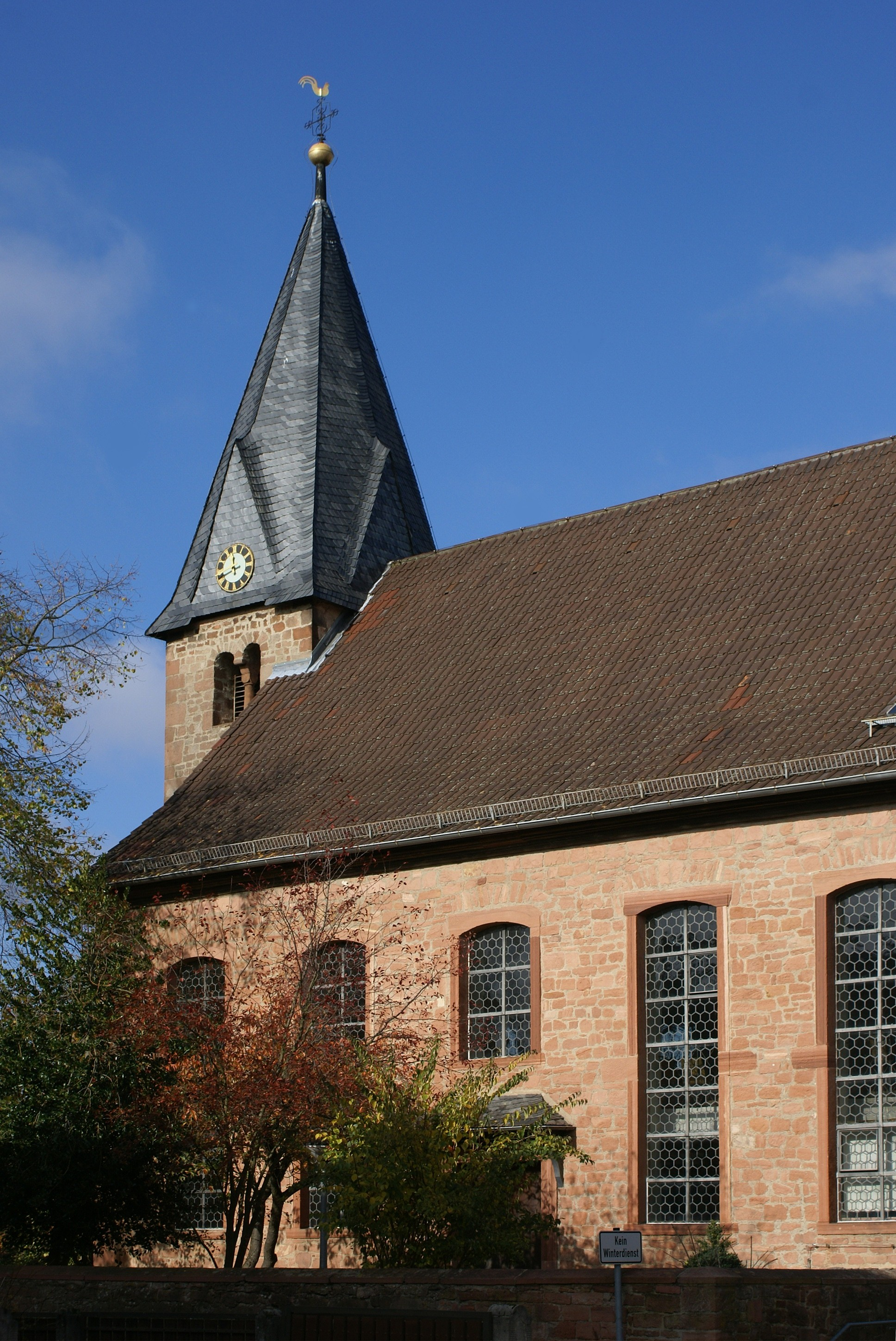 Protestant Laurentius-church in Niedermittlau